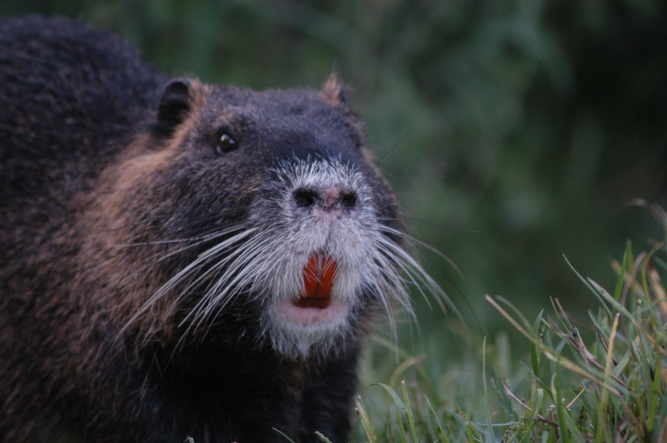 Frontal view of an Nutria (Myocastor coypus), so you can see clearly its orange large teeth. Pictured at Moshav 'Ein 'Eiron, Israel.